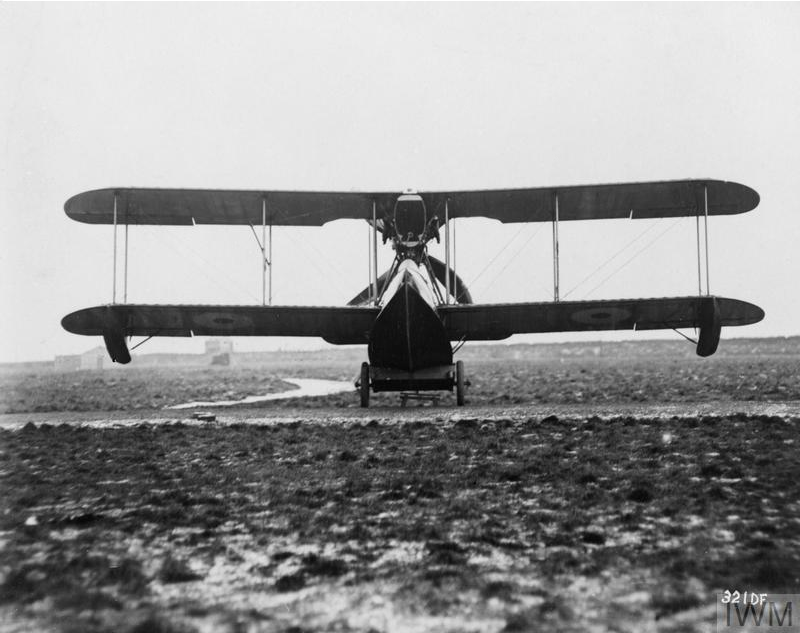 Photograph of Norman Thompson N.1B (N37) Admiralty, front view.